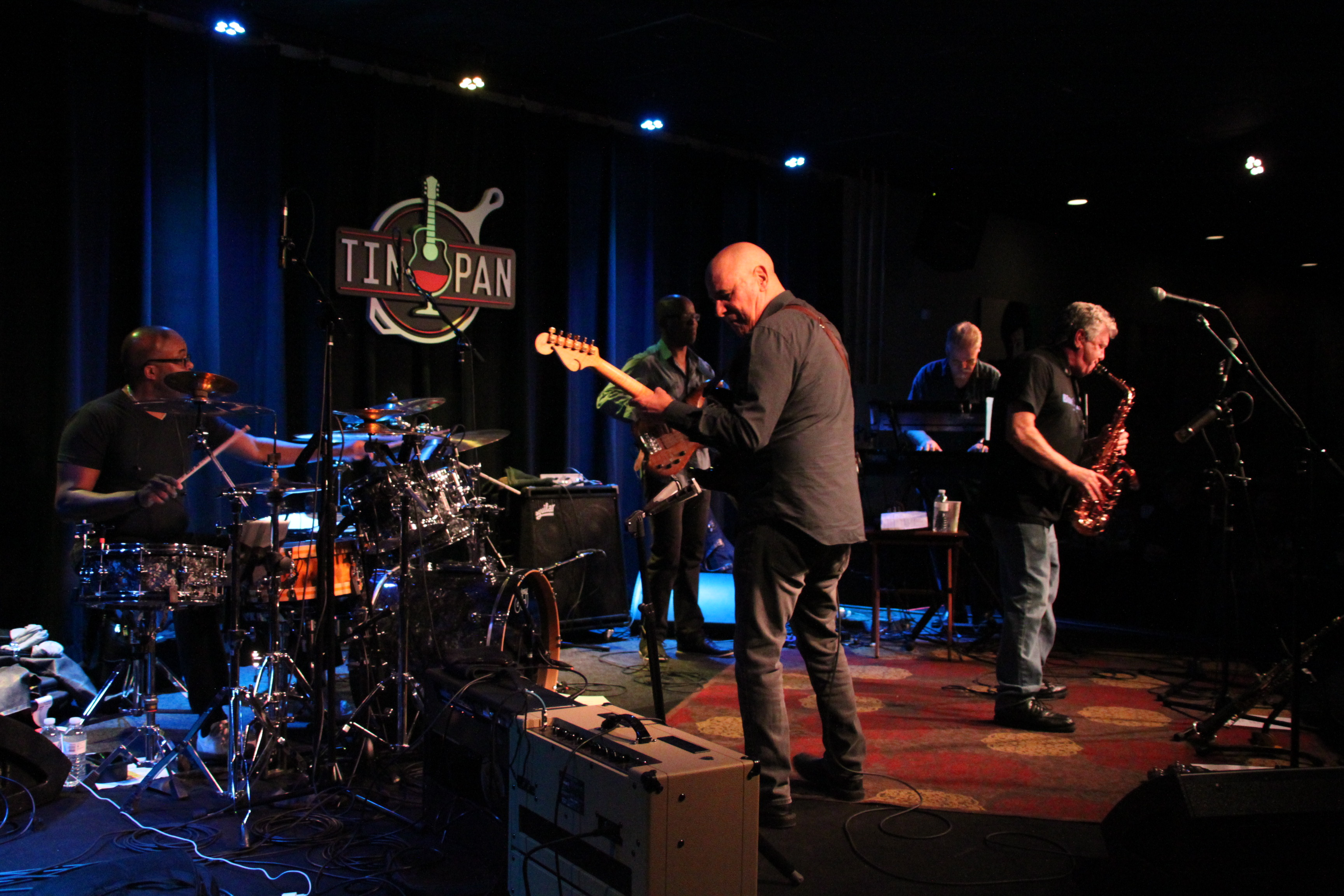 Spyro Gyra-Lee, Scott, Julio, Tom & Jay perform in Richmond VA, 2017-02-23